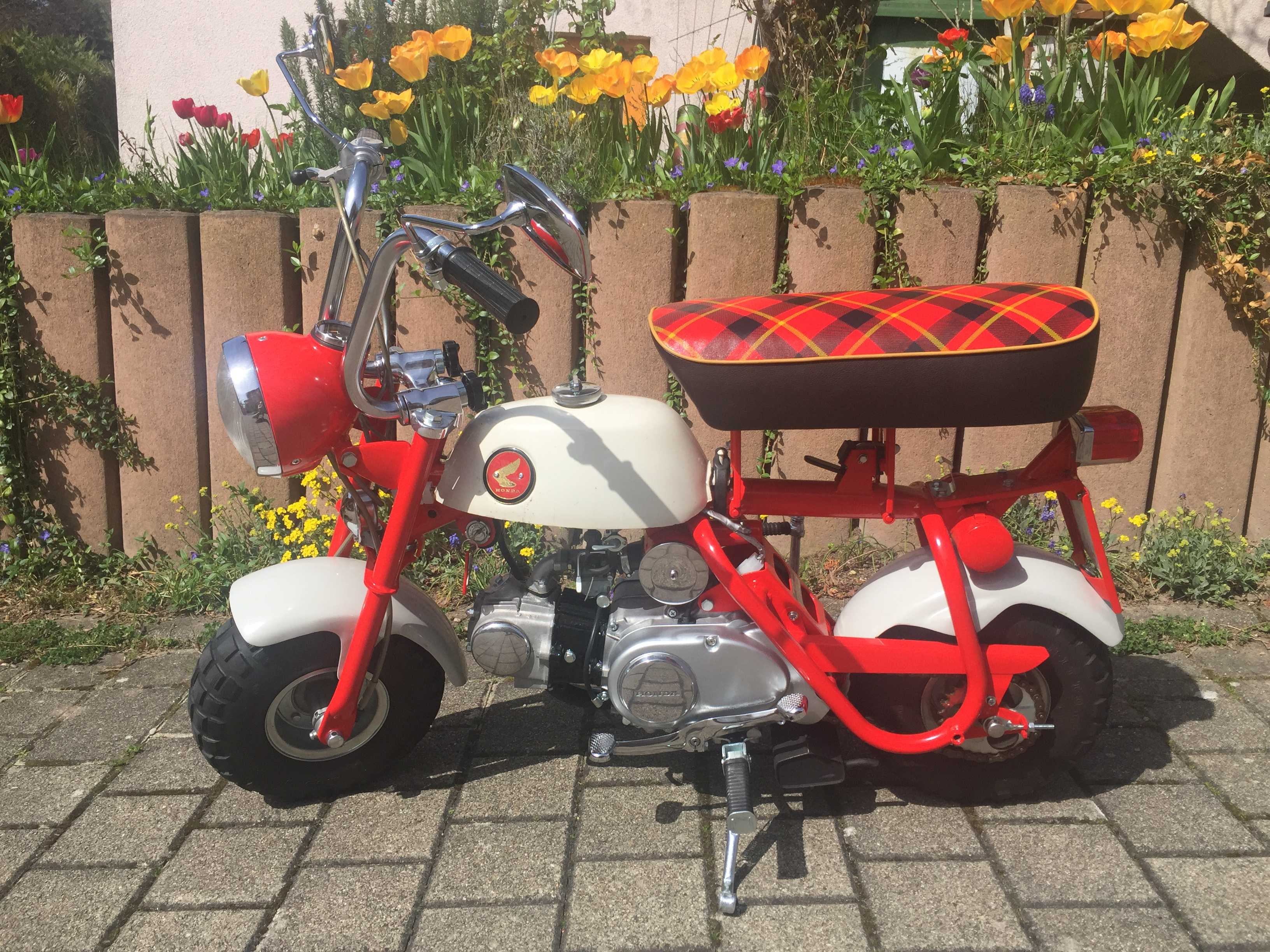 This MC is very compact and pretty fast